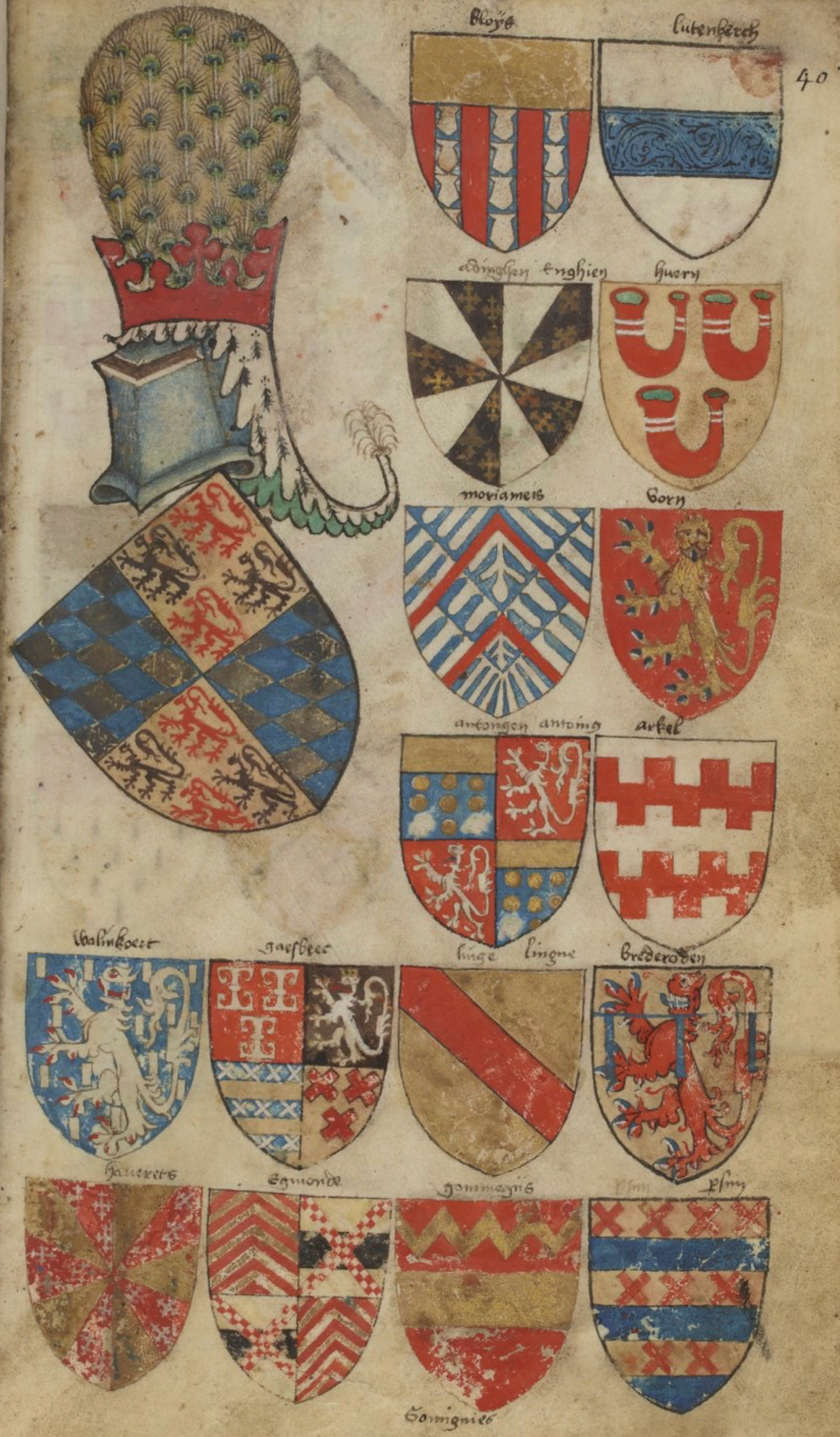 Folio 40 from Armorial Bellenville